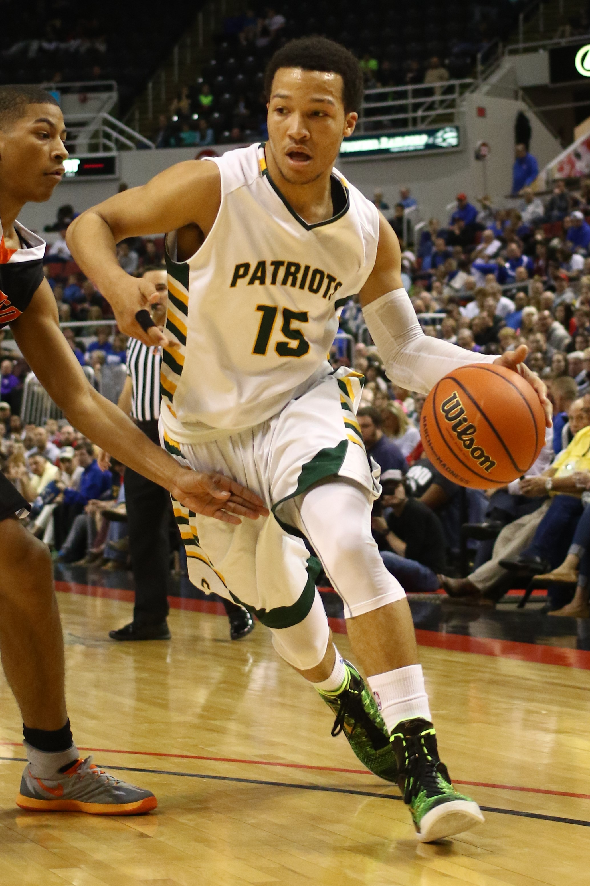 Jalen Brunson in the 2015 IHSA Class 4A championship game